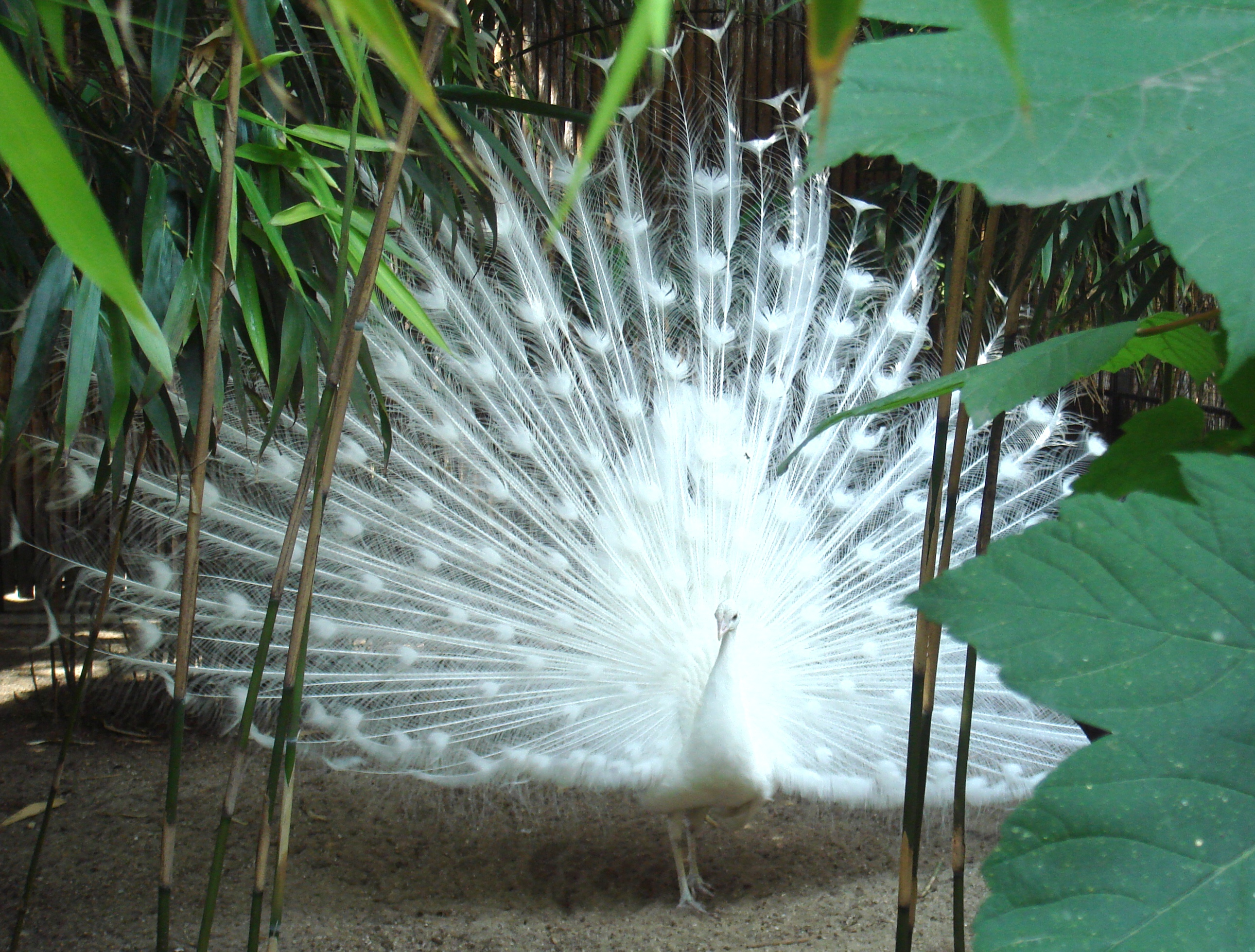 Indian_peafowl_white_mutation